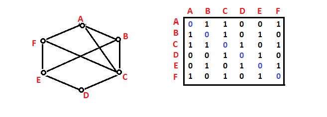 Ma trận kề vô hướng